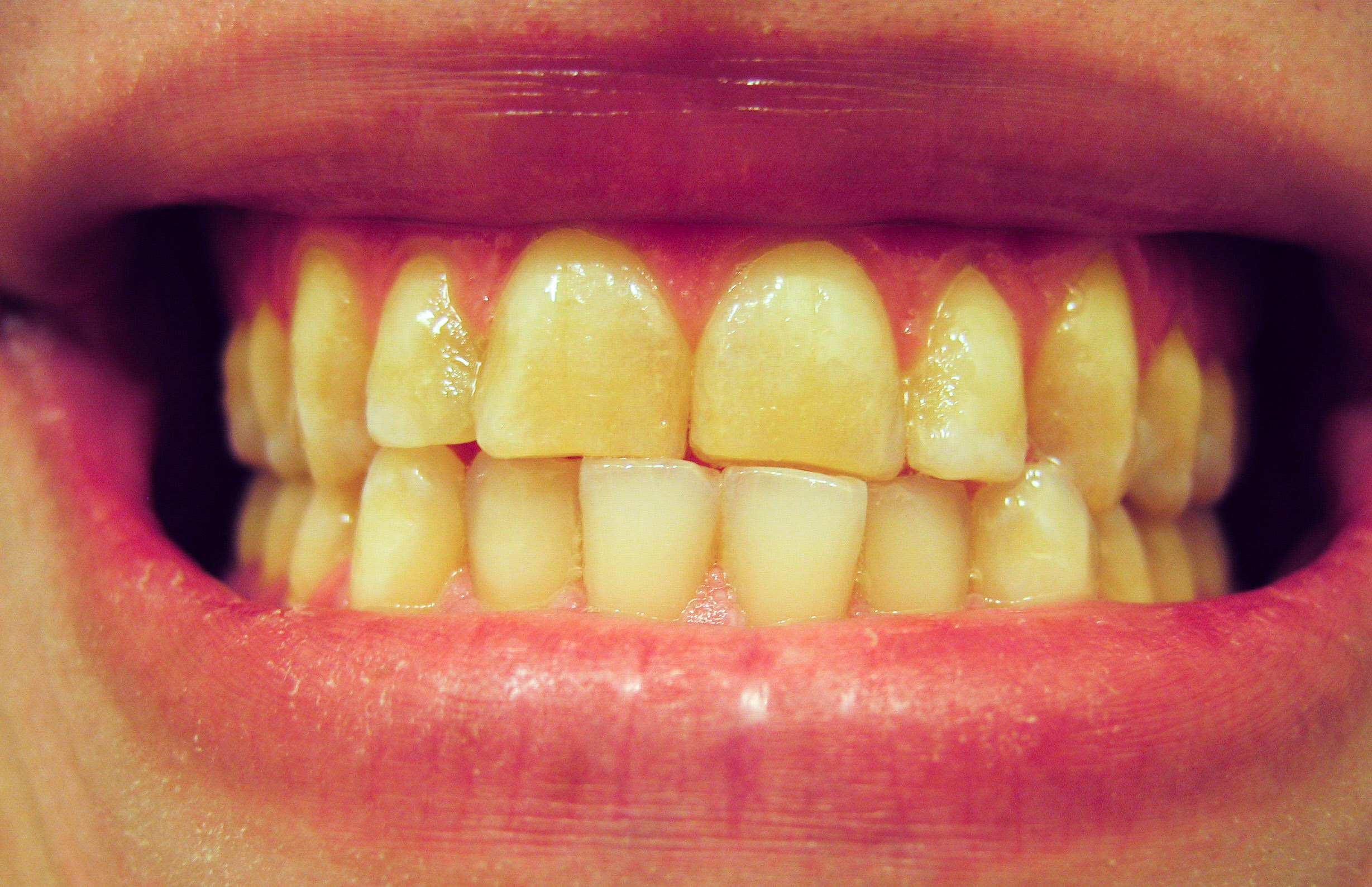 Picture of worn teeth due to teeth grinding (bruxism). The front teeth would naturally be longer but have been ground down over time. The image also shows a deviated midline or "midline discrepancy".